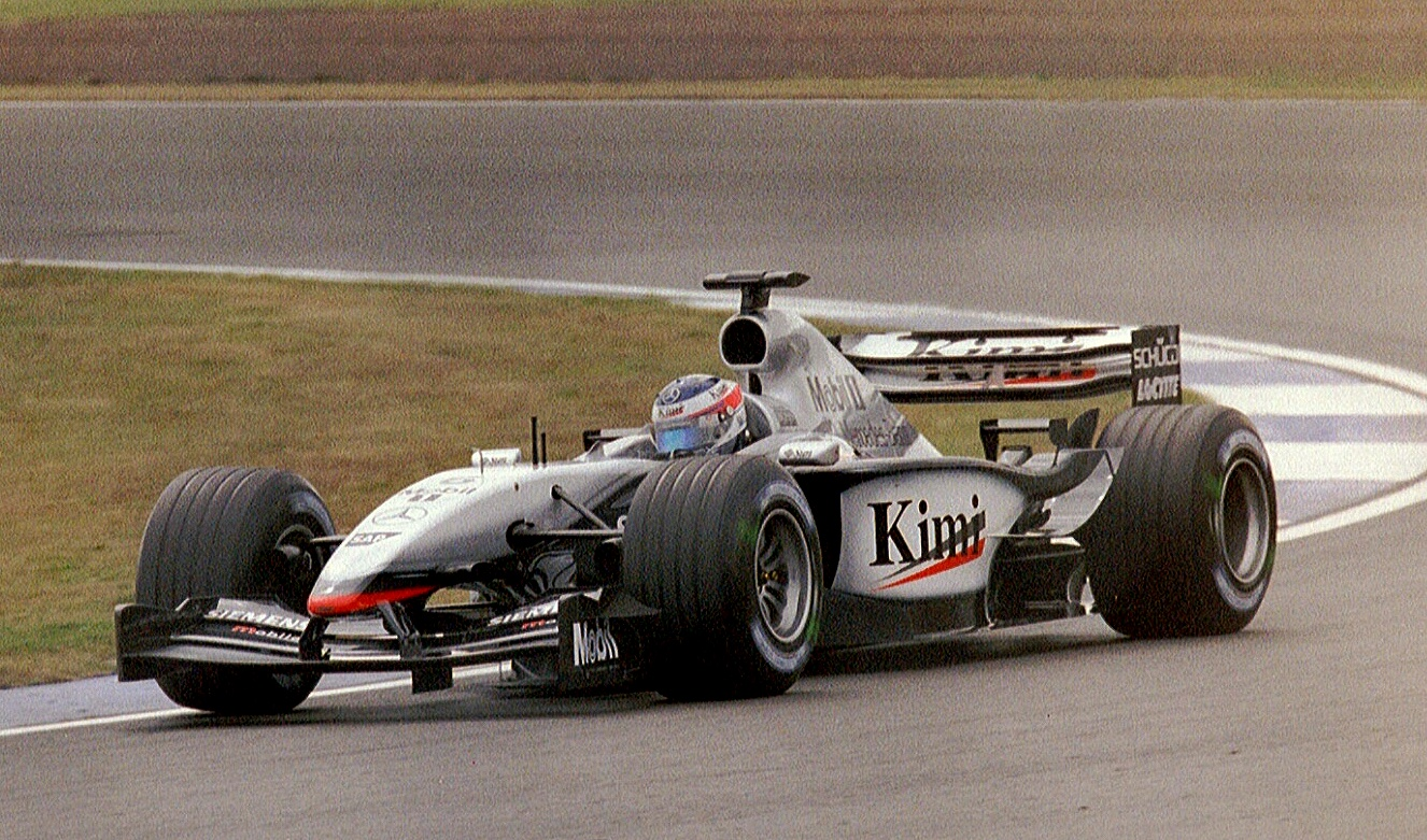 Kimi Räikkönen, driving his West McLaren Mercedes at the 2003 British Grand Prix.